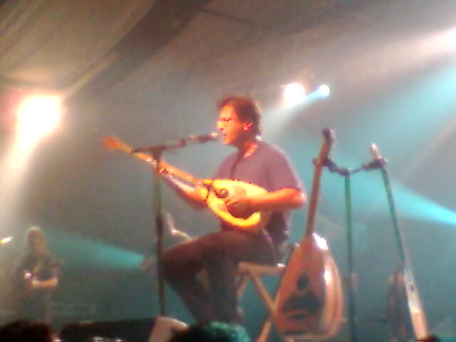 The singer-songwriter Thanassis Papakonstantinou, performing live. Photo taken by myself, using my Nokia 5200 phone (hence the bad quality). No prohibition of taking photos was made at the concert.